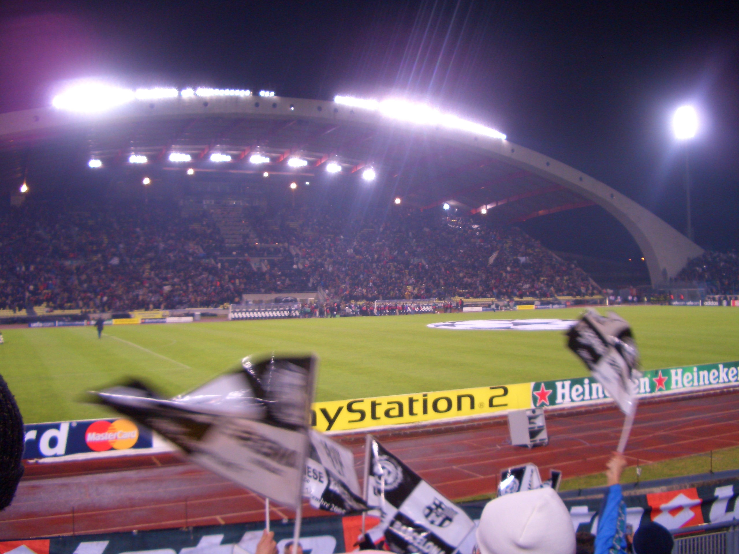 Stadio Friuli (Udine) during the Champions League-Match Udinese Calcio-FC Barcelona